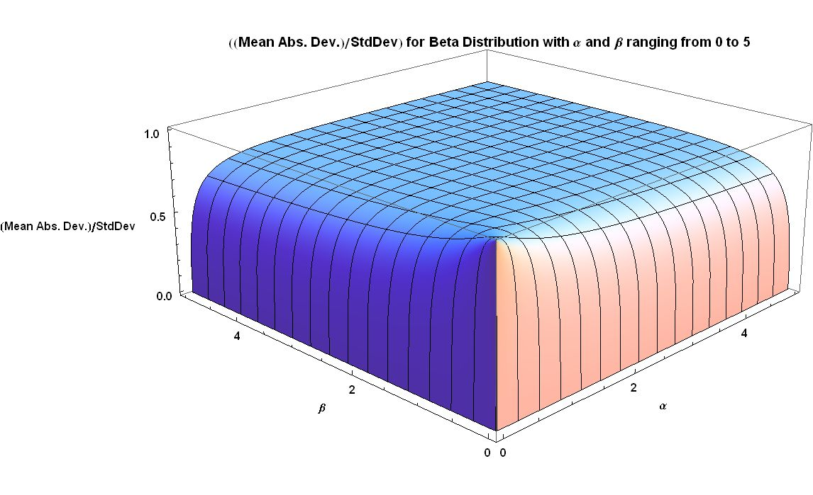 Ratio of Mean Abs. Dev. to Std.Dev. Beta distribution with alpha and beta from 0 to 5 - J. Rodal